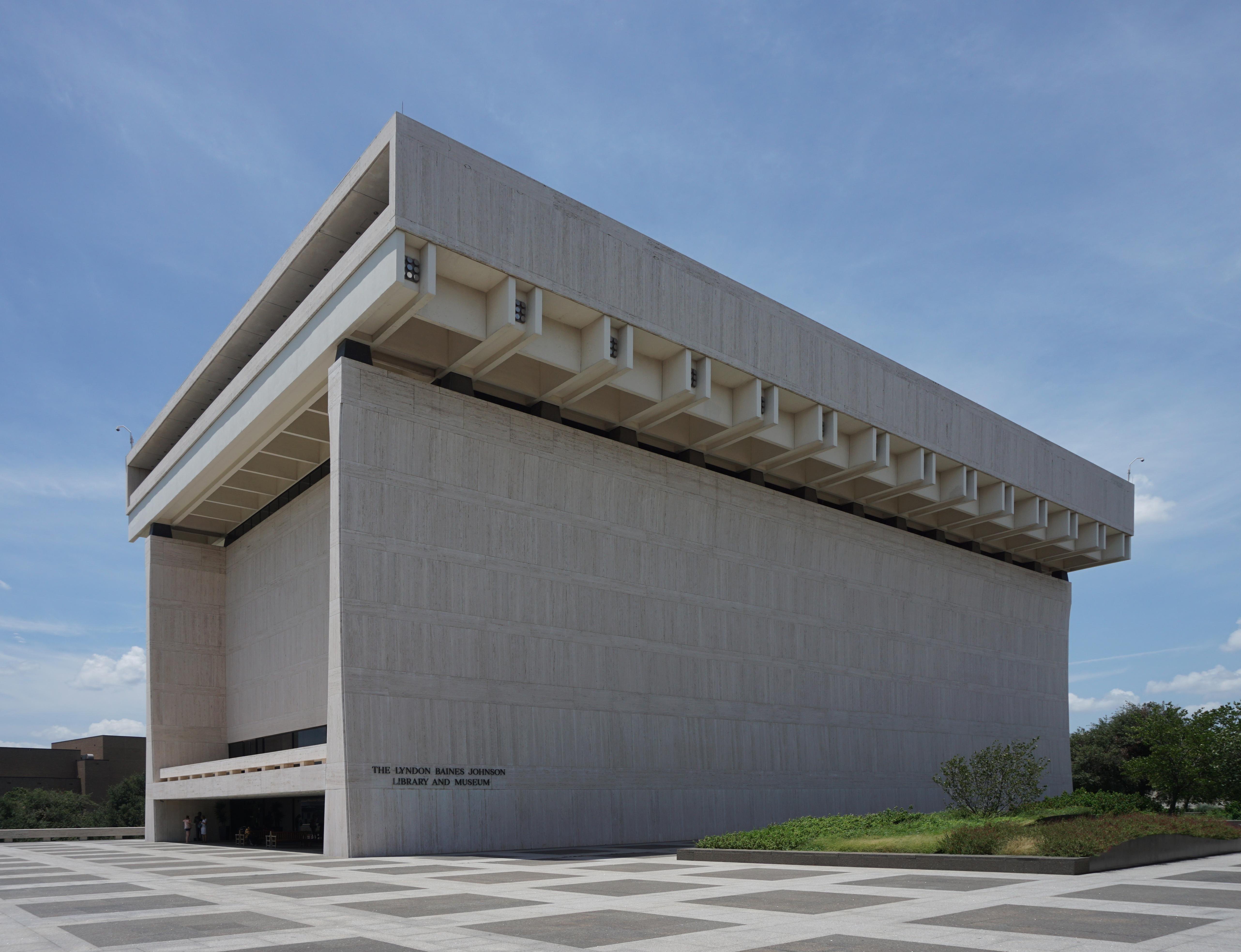 The exterior of the Lyndon Baines Johnson Library and Museum in Austin, Texas (United States).